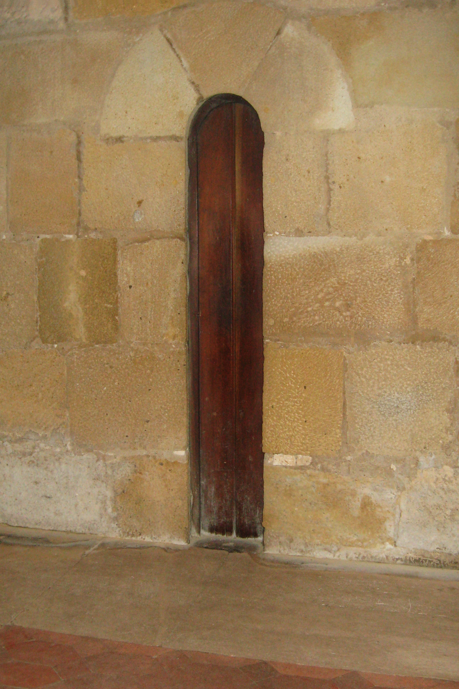 Mosteiro de Alcobaça, Refectory, door of unknown usage, said being used for monk´s weight-control, total